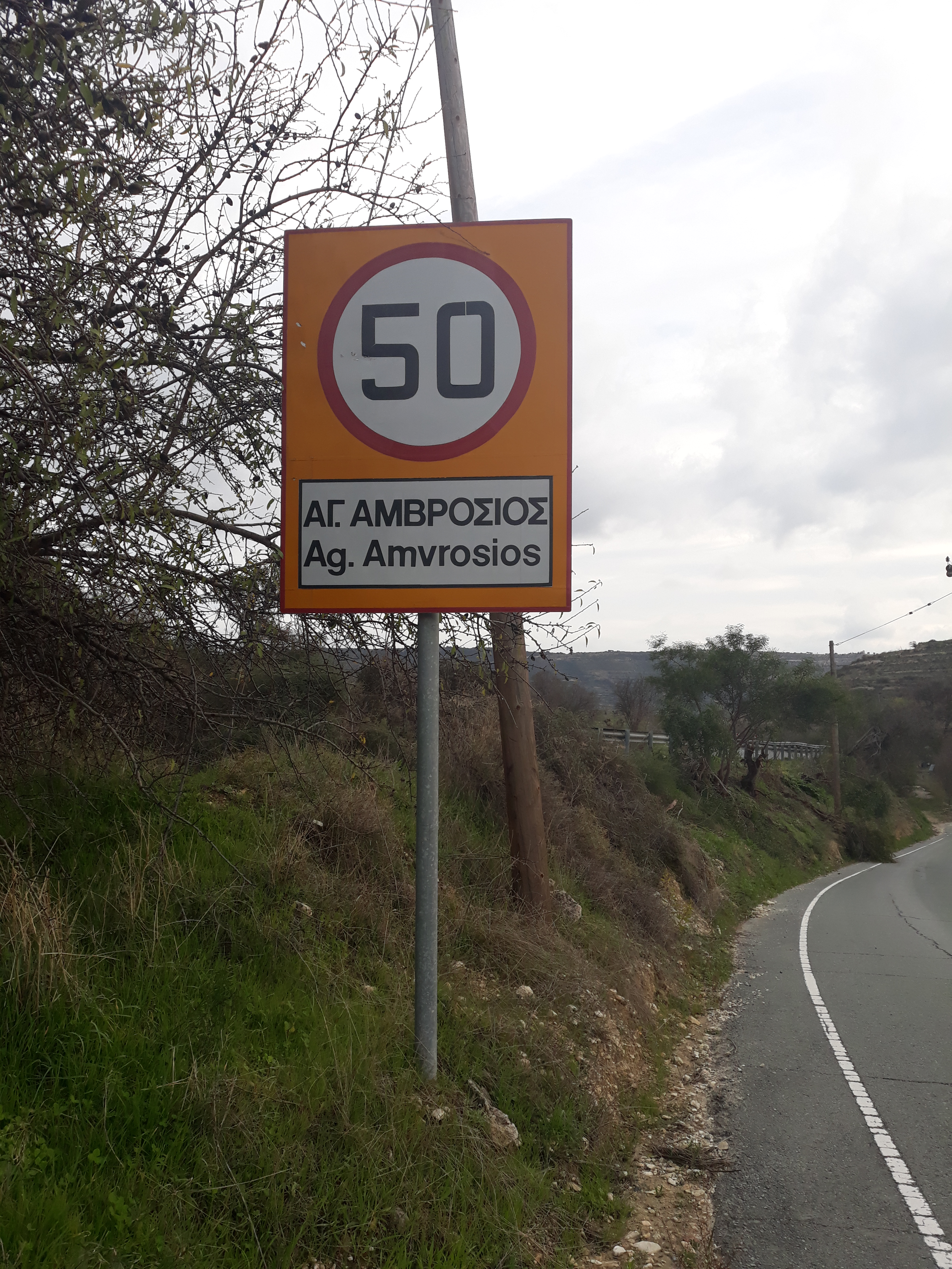 Agios Amvrosios, Limassol Road Sign.